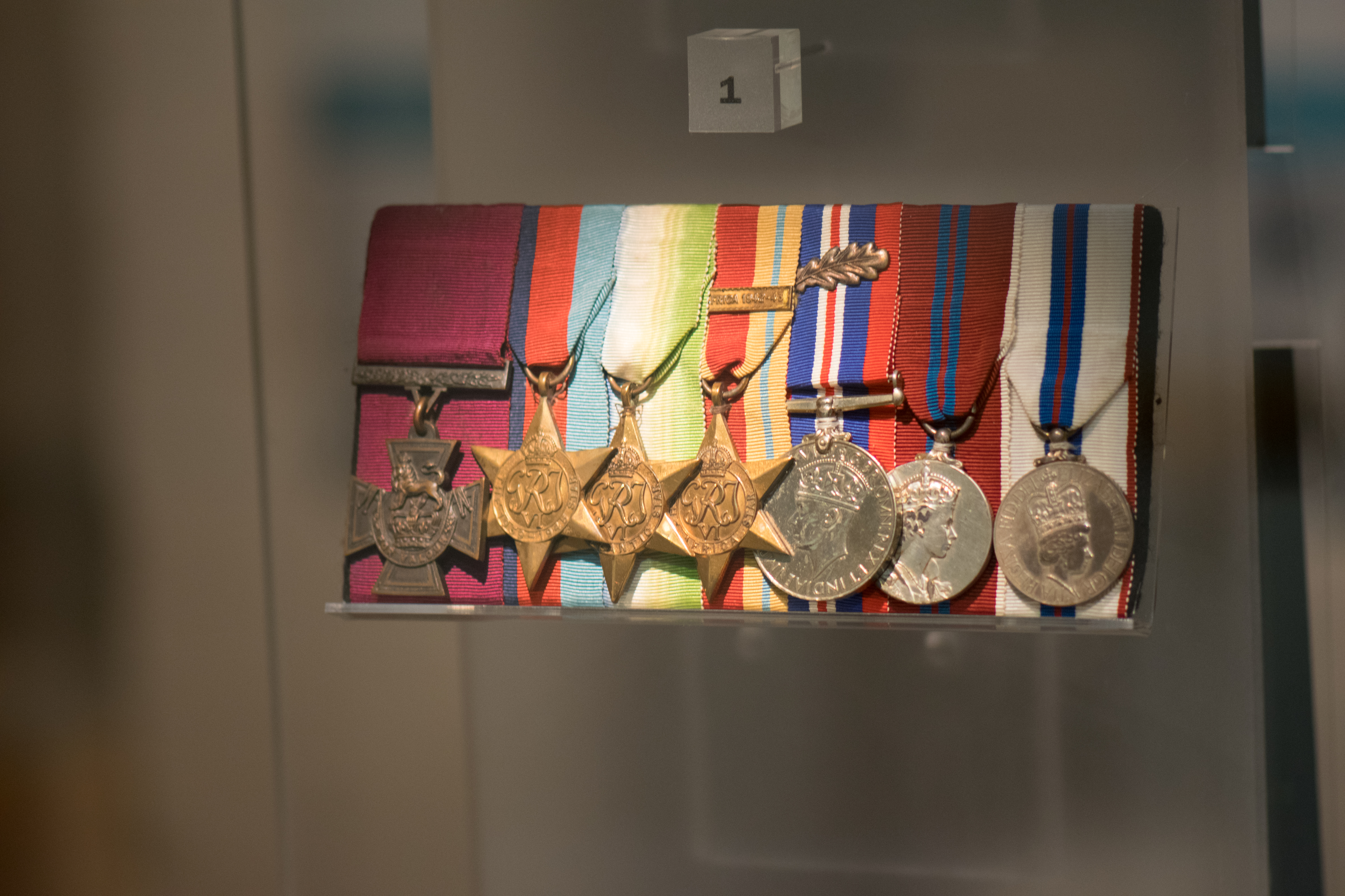 Jewish Museum of London, 2017